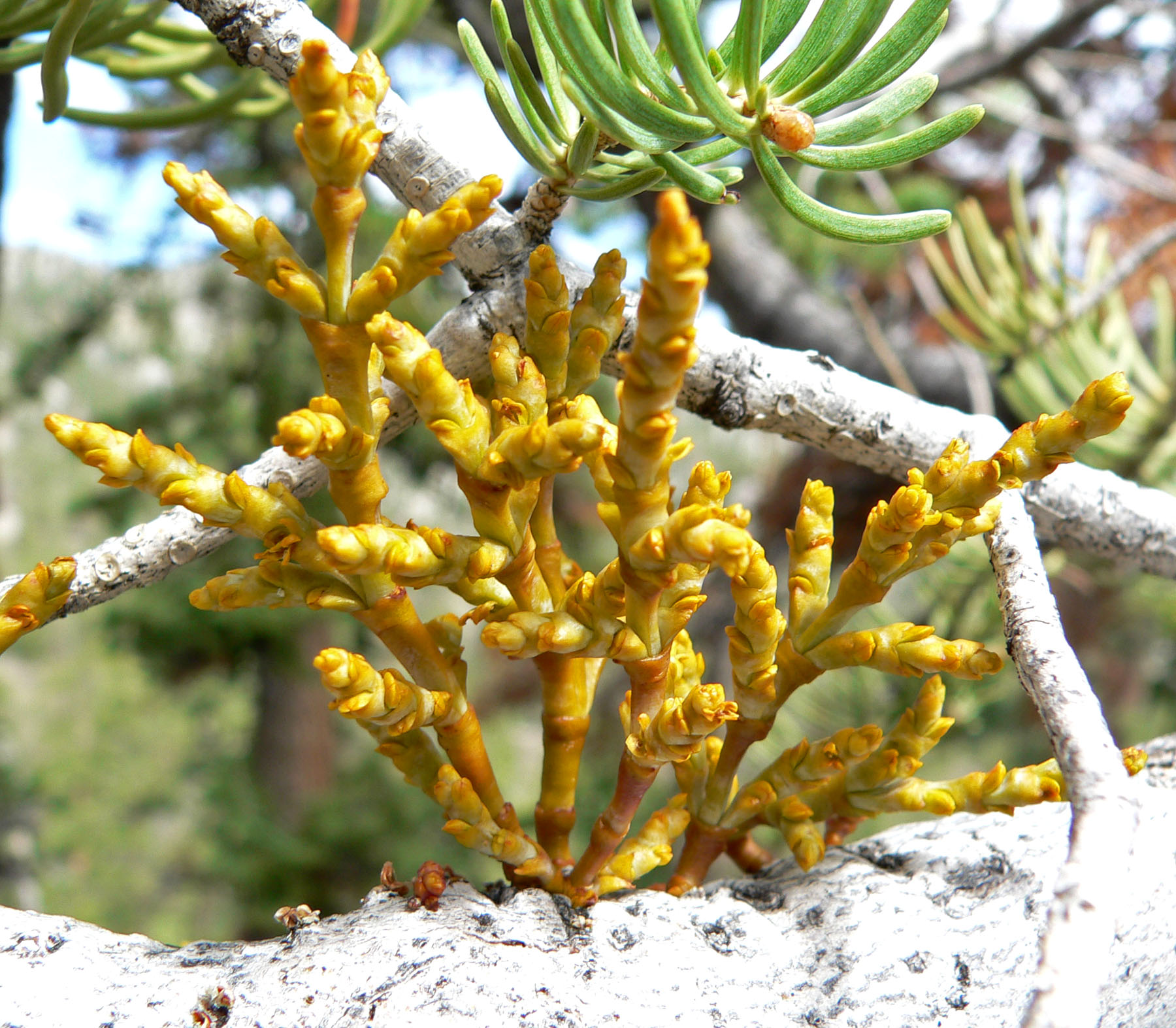 Arceuthobium abietinum growing on Abies concolor in Lee Canyon, Spring Mountains, southern Nevada